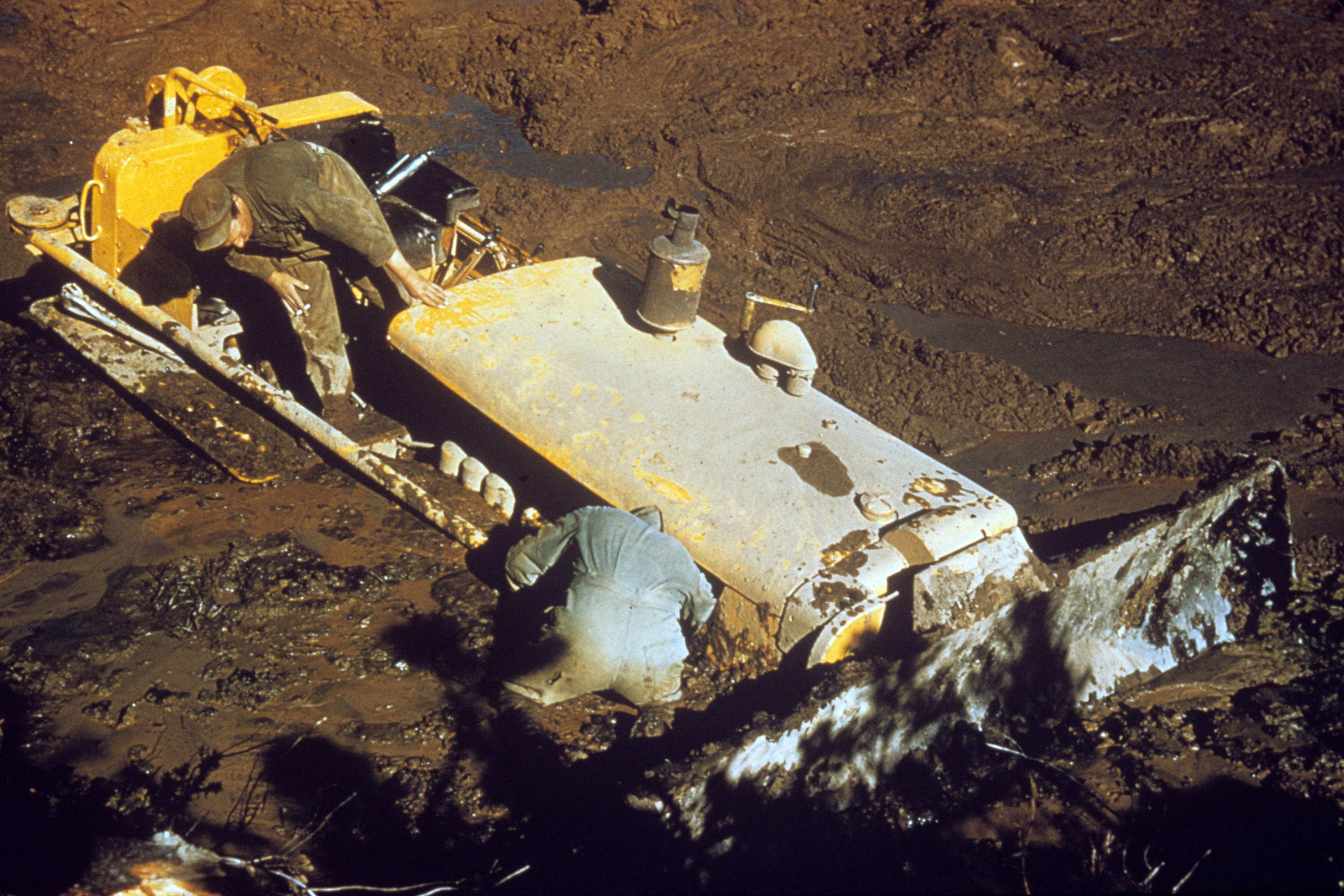 Hanson Memorial Highway construction, Stephenville Newfoundland